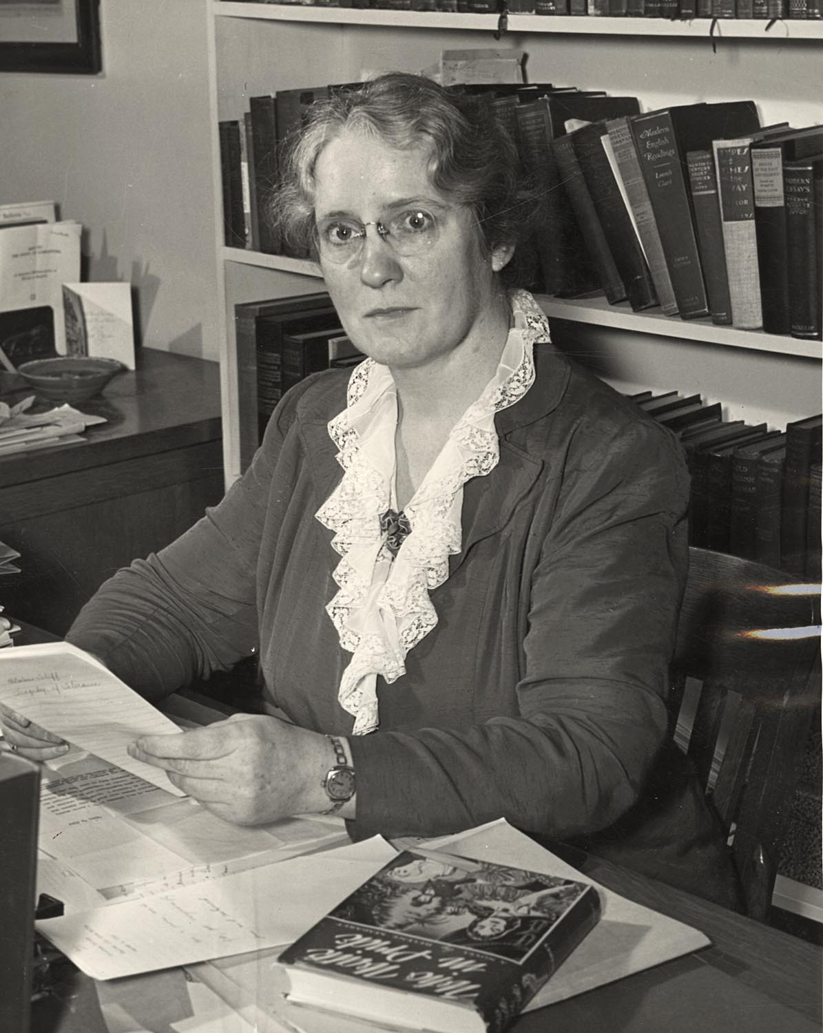 From archives: "English professor Helen C. White works at her desk." Local identifier: UW.uwar04886.bib